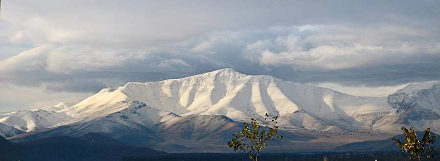 Sefidkhāni (means: white house) mountain in Arak County. Sefidkhāni is a snow-covered mountain in most time of year.